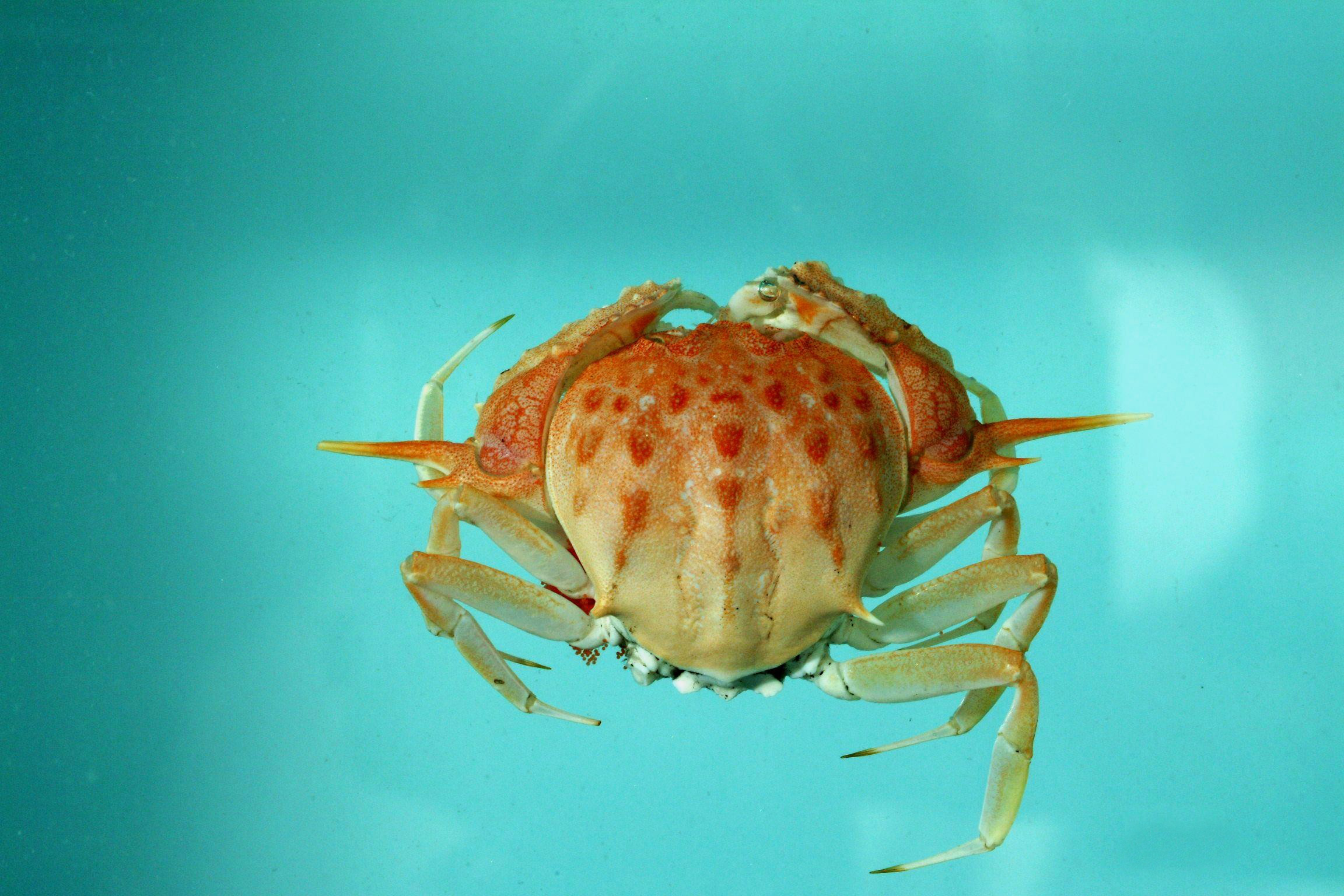 Gladiator box crab ( Acanthocarpus alexandri ). Gulf of Mexico.